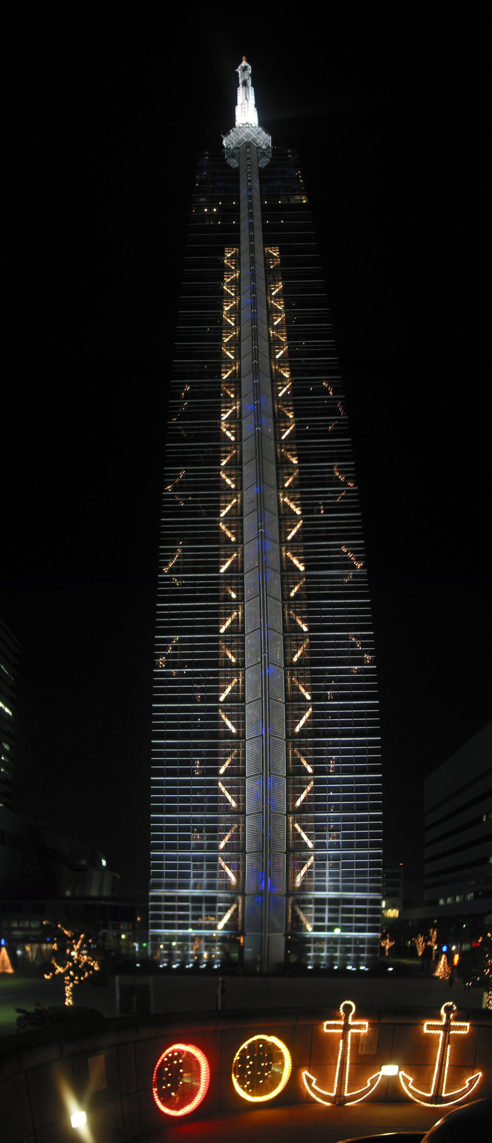 Fukuoka tower with its Christmas lights. Taken by Ningyou.